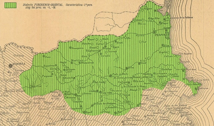 Map of the extension of the singular first person of the indicative present in -i or -ik in Northern Catalan